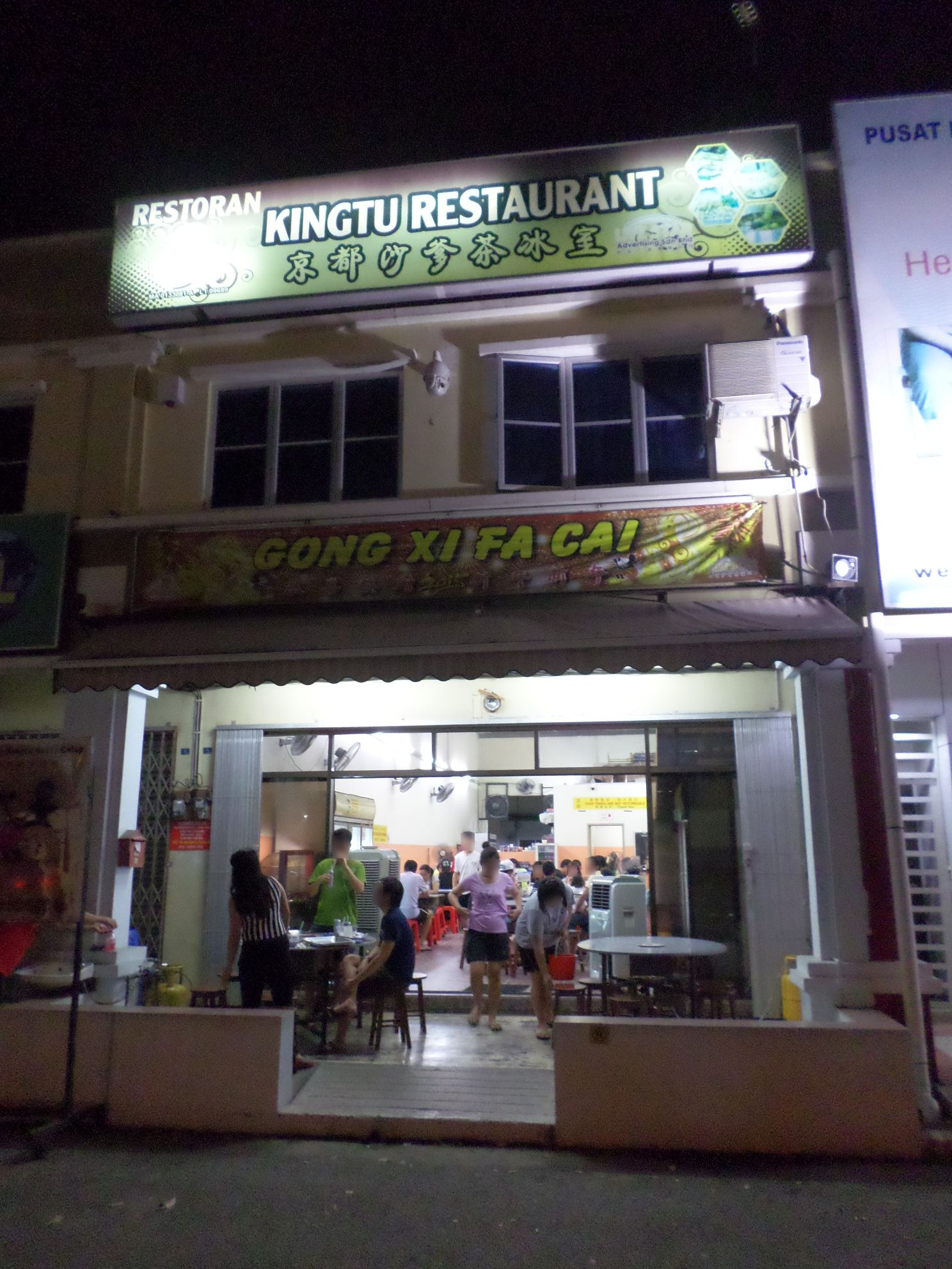 Kingtu Restaurant, Melaka City, Central Melaka, Melaka, Malaysia